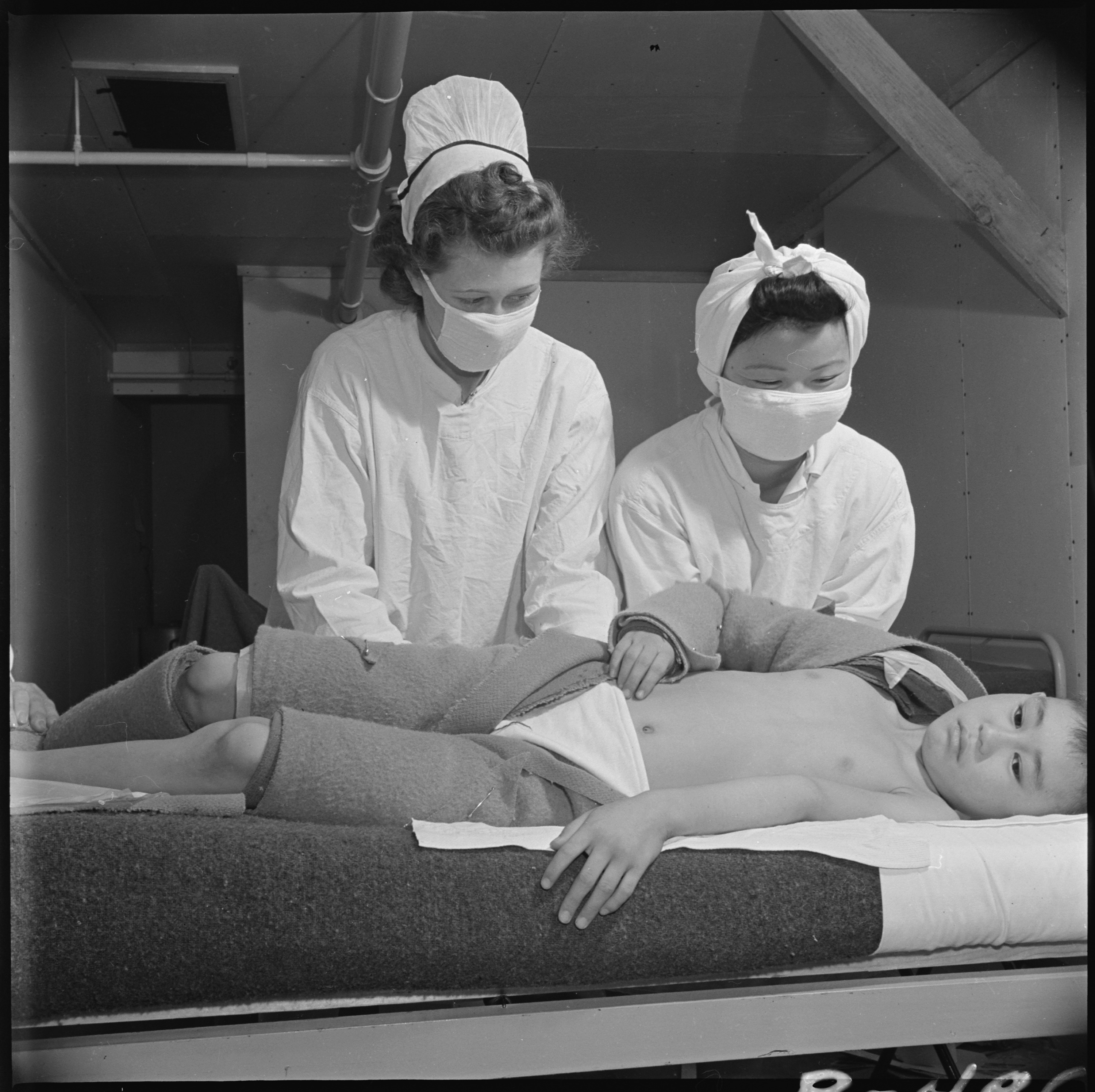 Scope and content: The full caption for this photograph reads: Poston, Arizona. Registered nurse, Mrs. Edythe Sasser, is assisited by Yoshiko Konatsu, nurse's aid, and Tomiko Kitasaki, nurse's aid, in the treatment of infantile paralysis. All patients suffering from this dread disease are treated by the Kenny method. Hot packs are applied to the stricken limbs and this is followed by muscular and nervous reeducation.